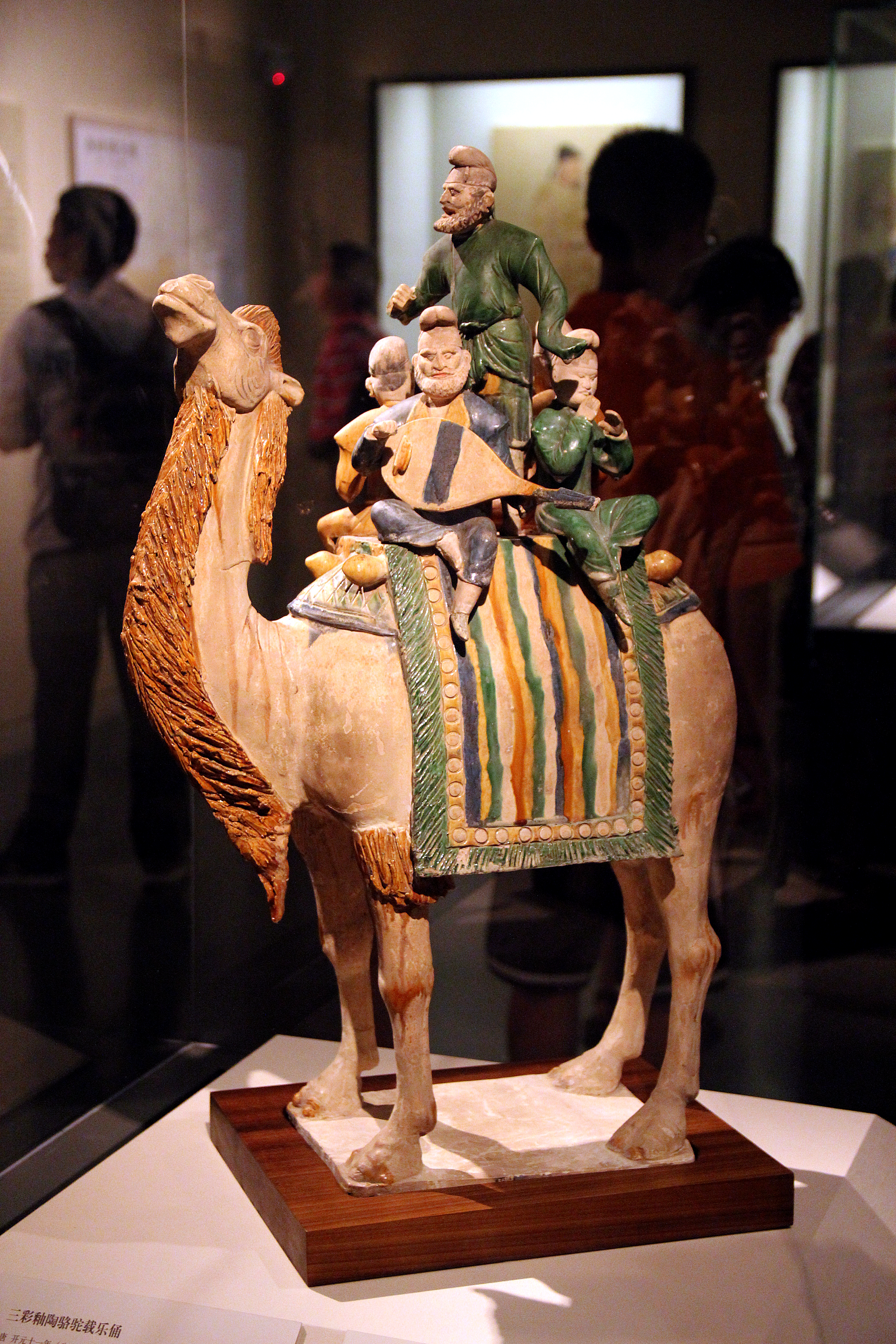 Tang dynasty pottery sculpture, showing musicians sitting on a camel.